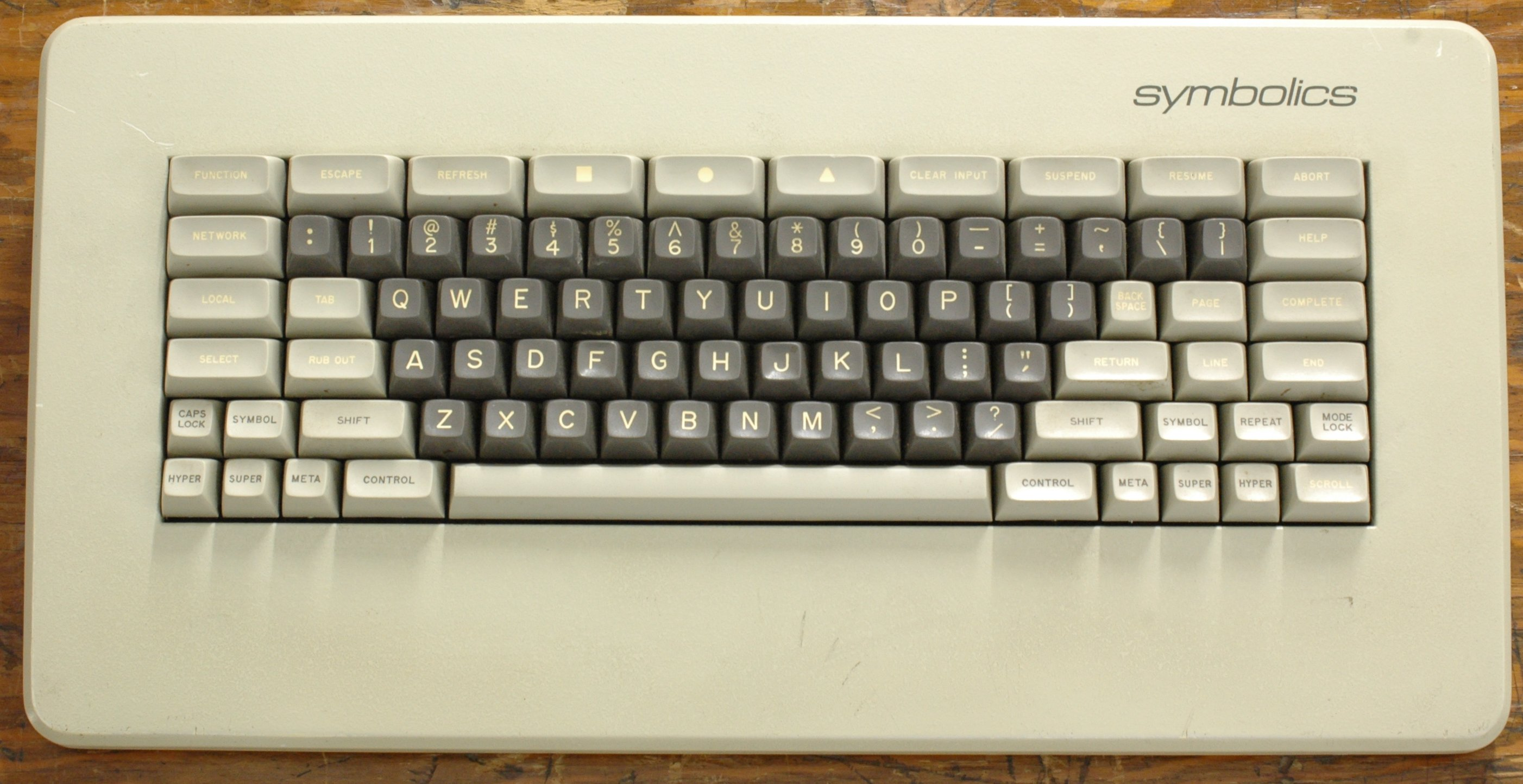 Keyboard for a Symbolics 3600 lisp machine. From the collection of the RCS/RI.